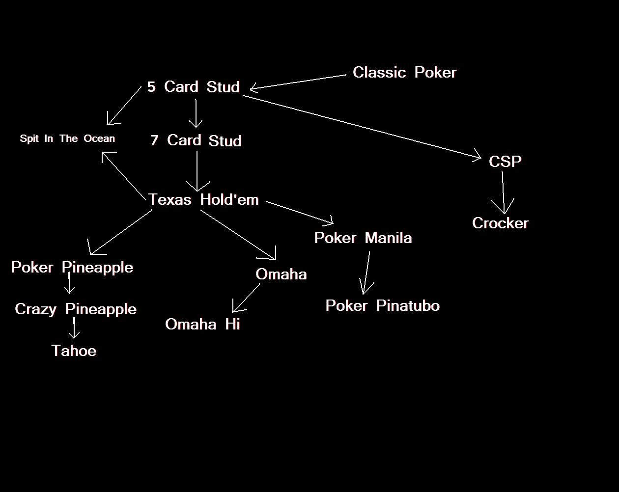 Versions of Poker